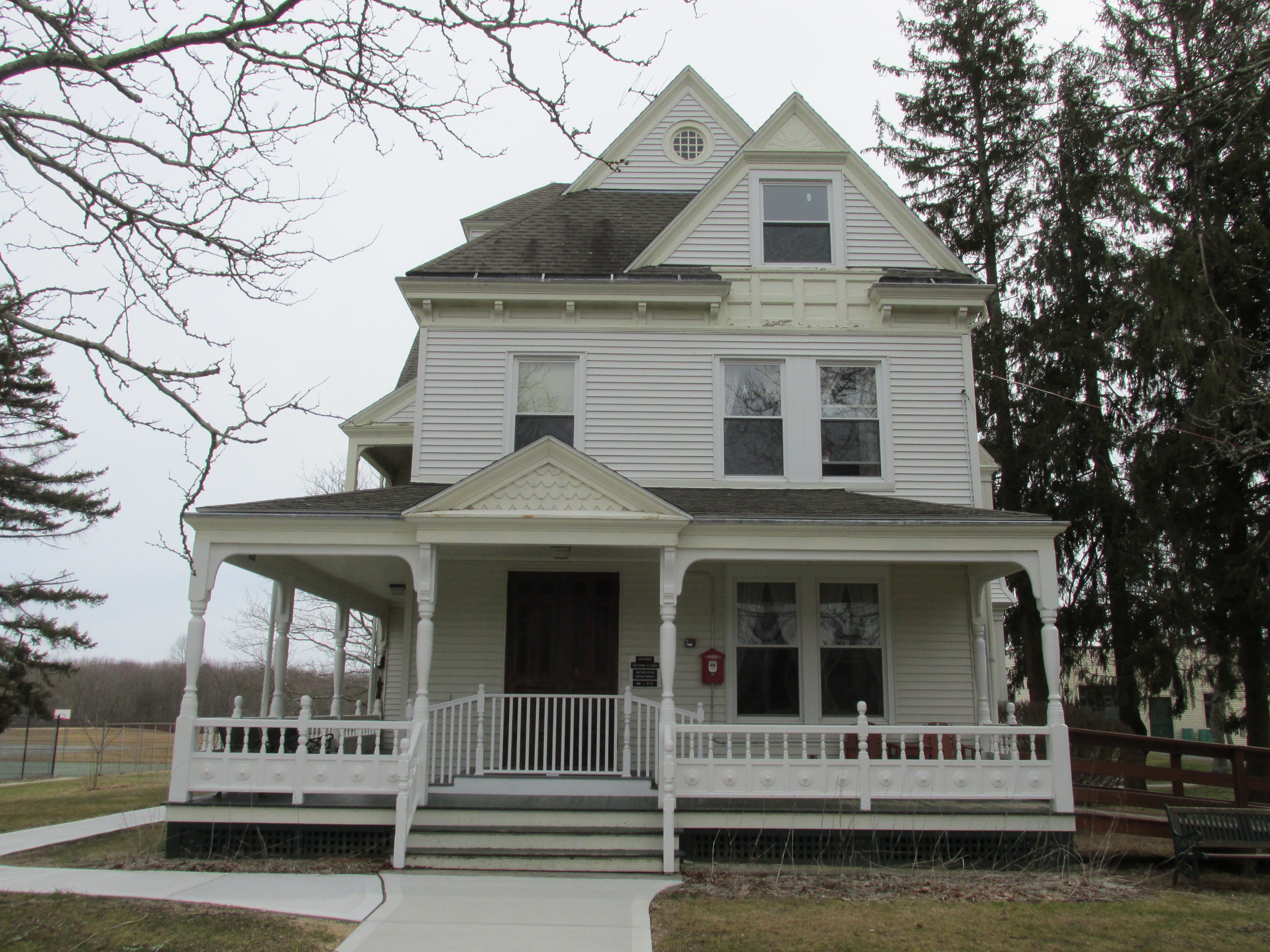 Crandall House, Ashaway Rhode Island